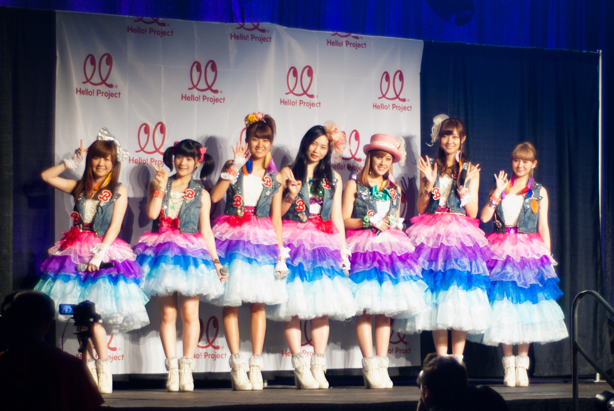 Berryz Kobo at the Q&A session at AnimeNEXT 2012.